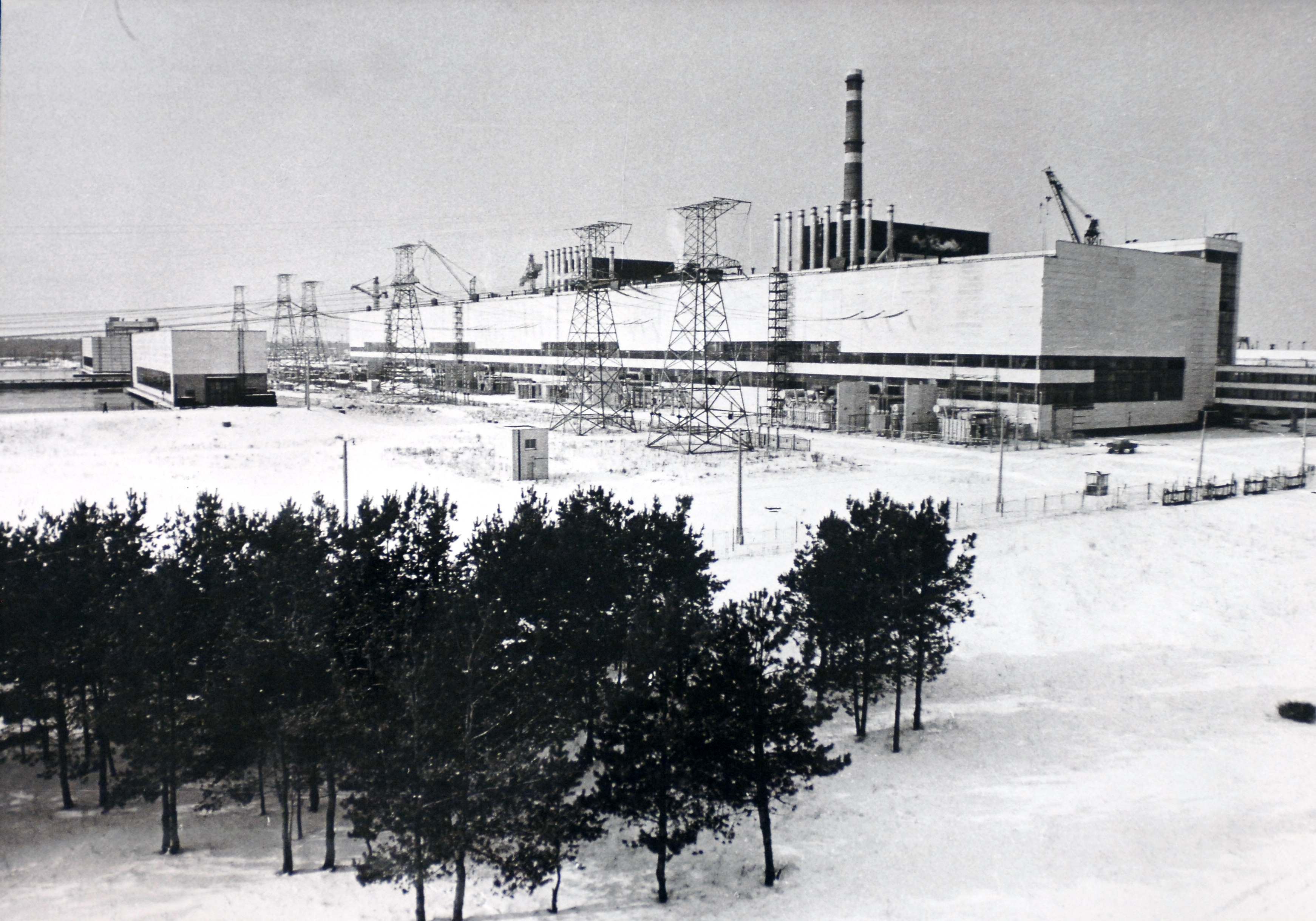 Historical collections of the Chernobyl accident from the Ukrainian Society for Friendship and Cultural Relations with Foreign Countries (USFCRFC). Winter, 1986. the atomic giant looks so peaceful among the fir trees. Nothing intended that it would "accost" the entire planet. Copyright: IAEA Imagebank Photo Credit: USFCRFC